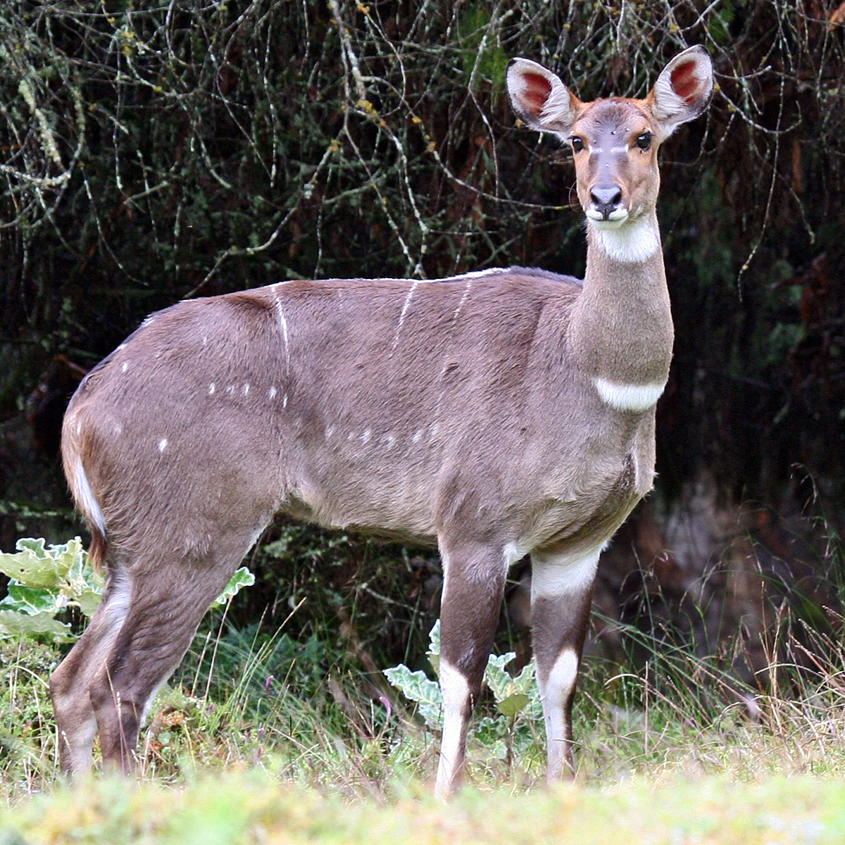 Mountain Nyala photographed in Bale mountains national park in the fenced area around the park headquarters